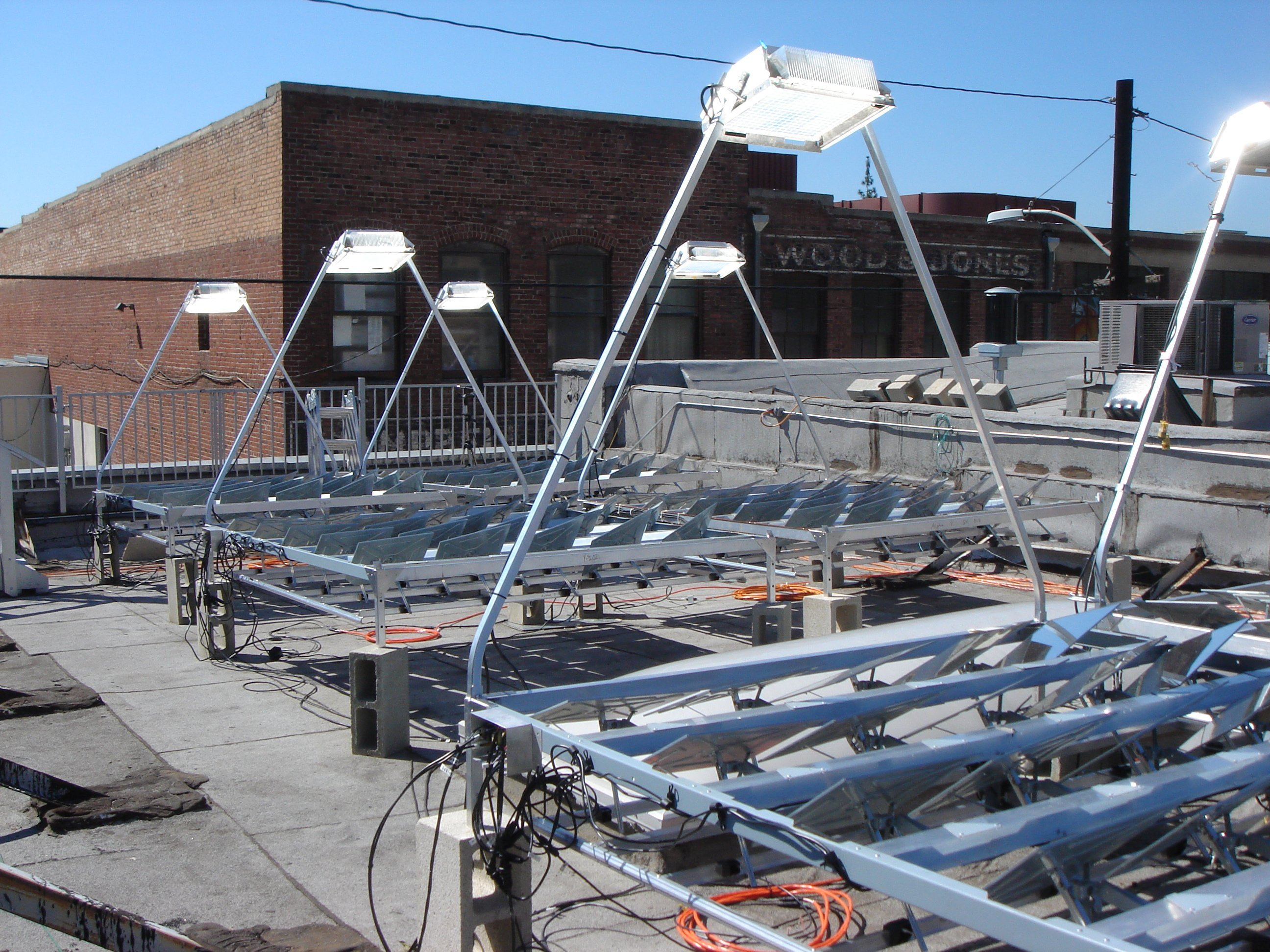 Reflective mirror (concentrating) photovoltaic power system. Concrete block mounts are temporary for this test set to allow access below unit, not necessary for production field installations. The units are oriented with the receiver mount to the south side. Image uploaded with permission by User:Leonard G. If republished, credit Energy Innovations Inc.[1] under Wikipedea license cc-by-sa-2.5